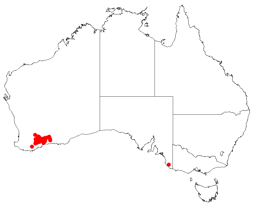 Hakea horrida Occurrence data downloaded from Australasian Virtual Herbarium on 22 November 2018 using